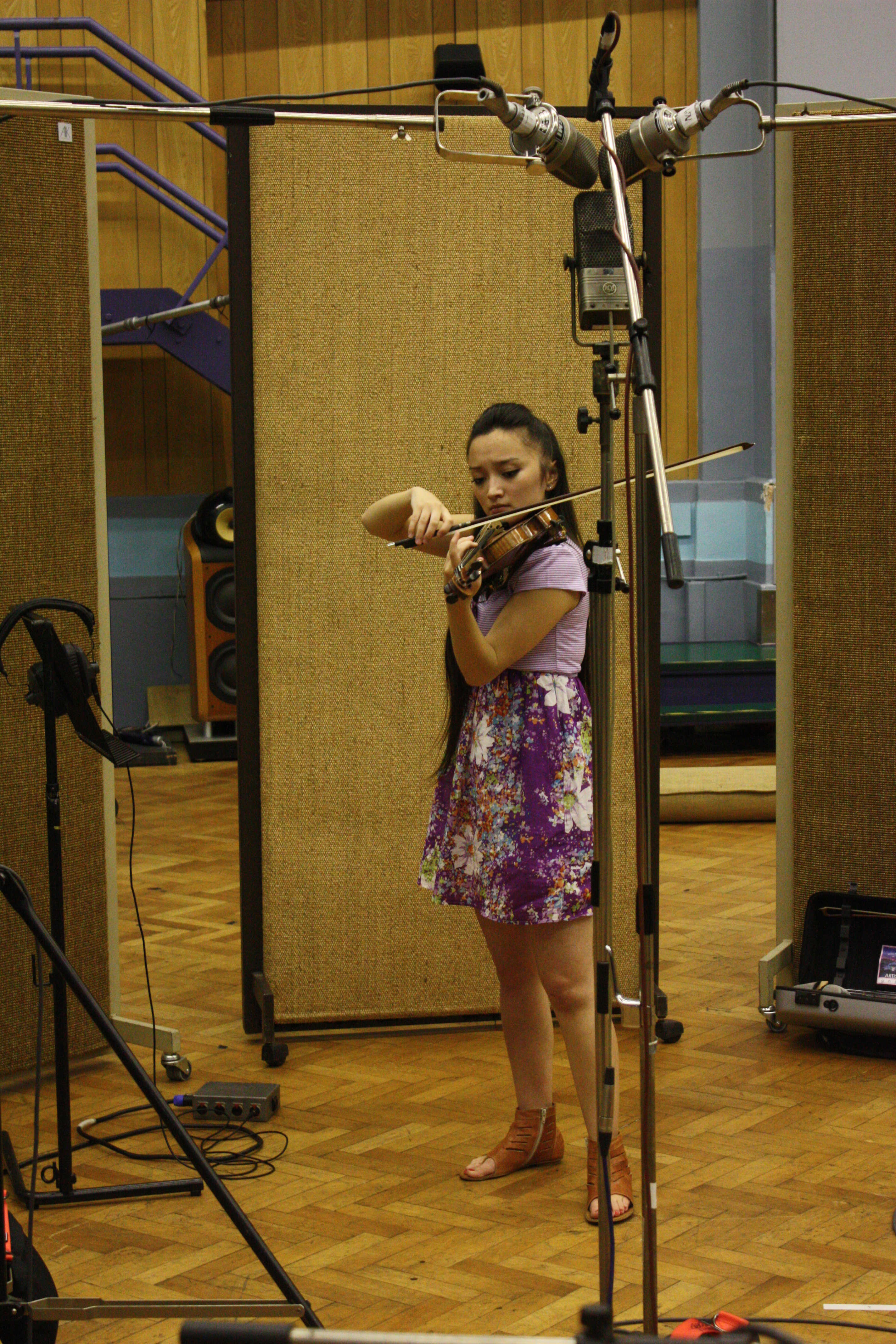 Violinist Diana Yukawa recording her 4rd solo album, The Butterfly Effect at Abbey Road studio's in London.